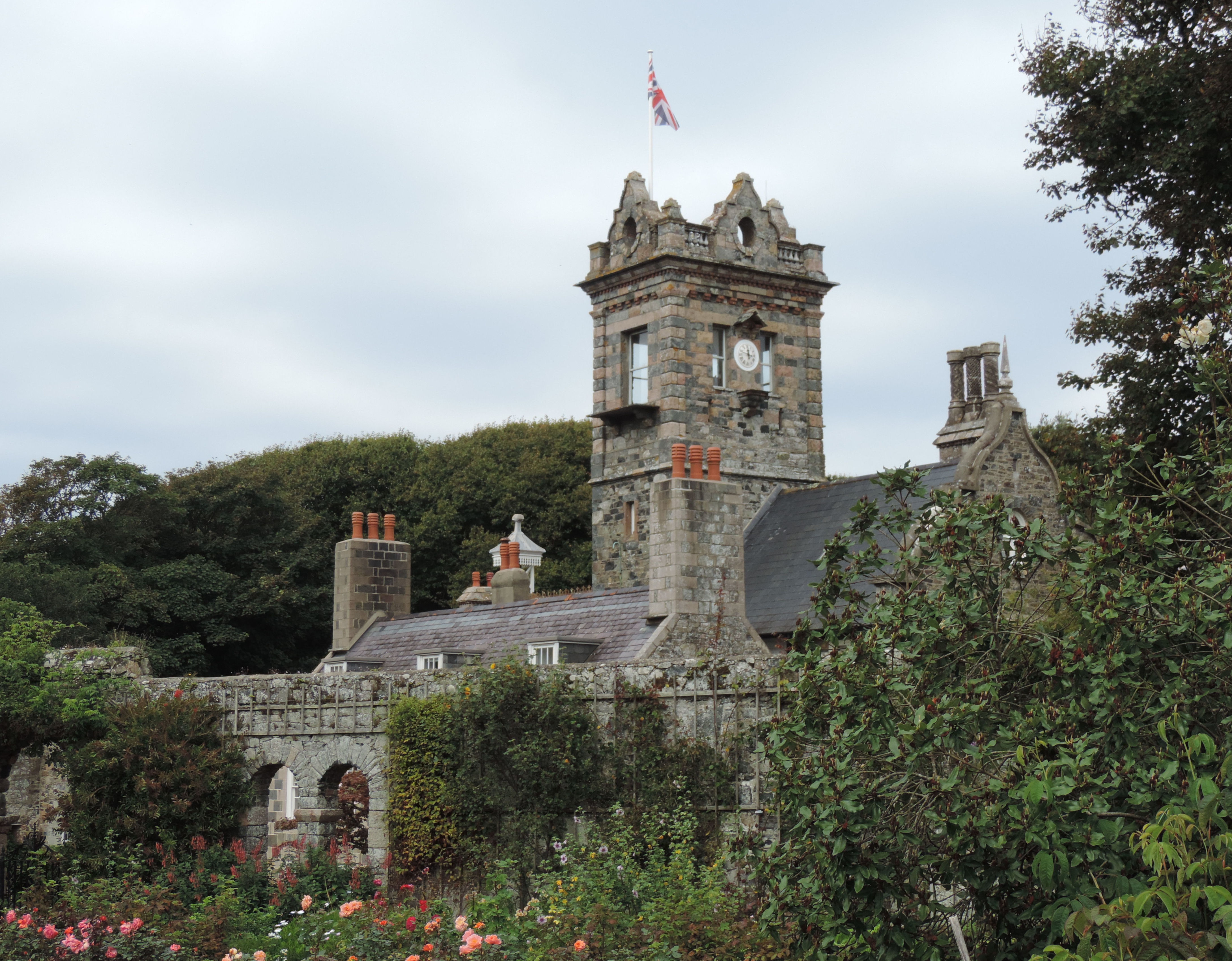 La Seigneurie (the governor's residence) on Sark, Channel Islands.